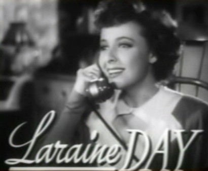 Cropped screenshot of Laraine Day from the trailer for the film Journey for Margaret.